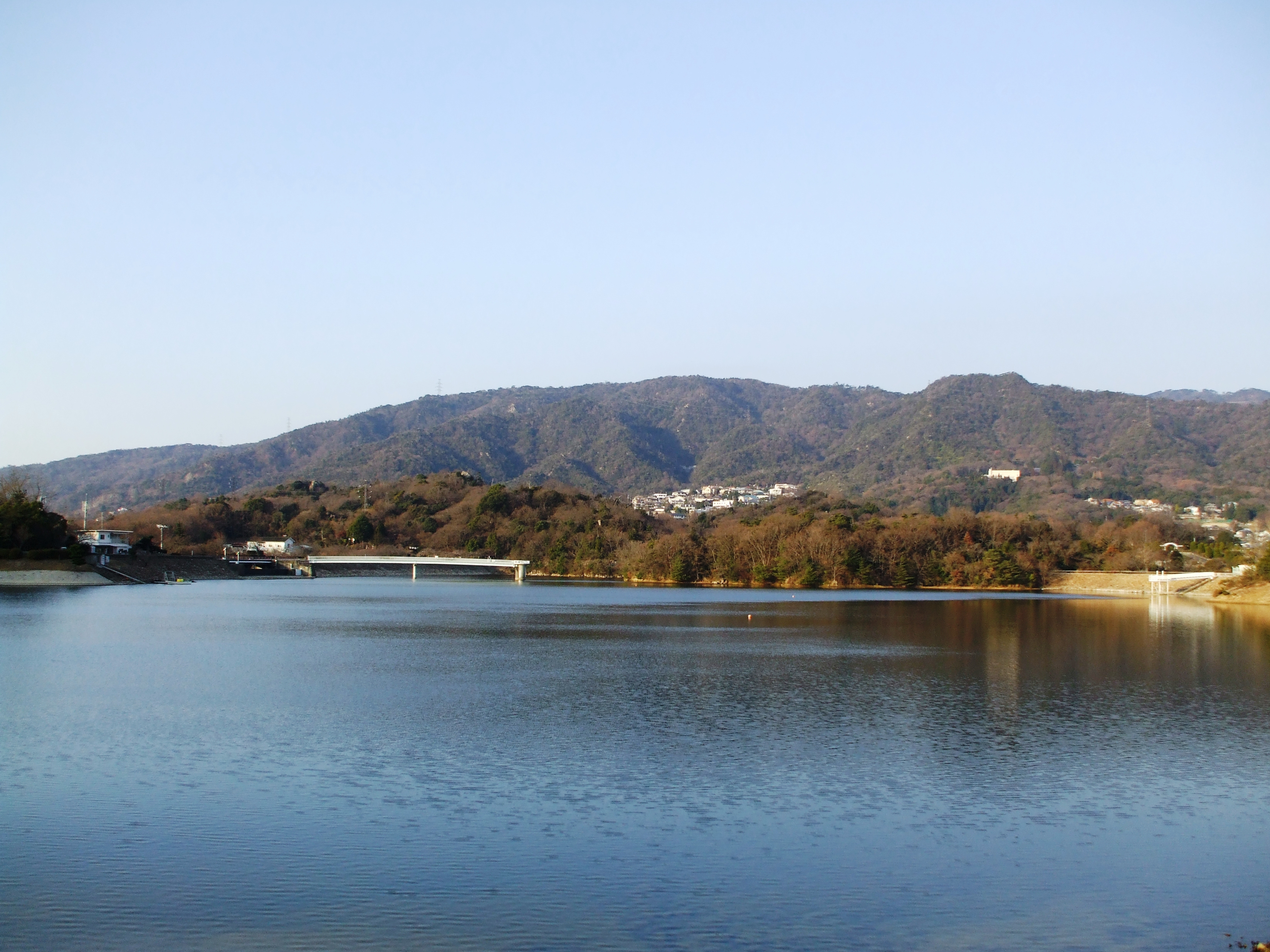 Mount Gorogoro seen from the ENE in Rokkō Mountains, Nishinomiya, Hyōgo, Japan.